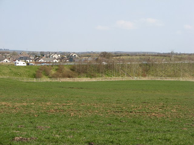 Spring grass, Eaglefield Grassland everywhere is being topped up with fertiliser for the spring growth spurt. Here good old manure has been used. In other places I saw small white pellets of chemical fertiliser in the grass. A74(M) motorway and Eaglesfield in the distance.